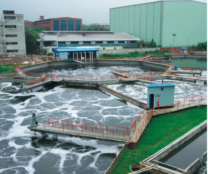 Efluent Treatment plant at Savar , DEPZ